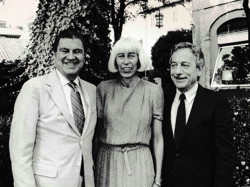 Prof. Joseph LaPalombara, longtime political scientist at Yale University, poses with his wife (center) and with Maxwell Rabb, the Ambassador of the United States to Italy (1981-1989). Pictured in Rome, Italy.